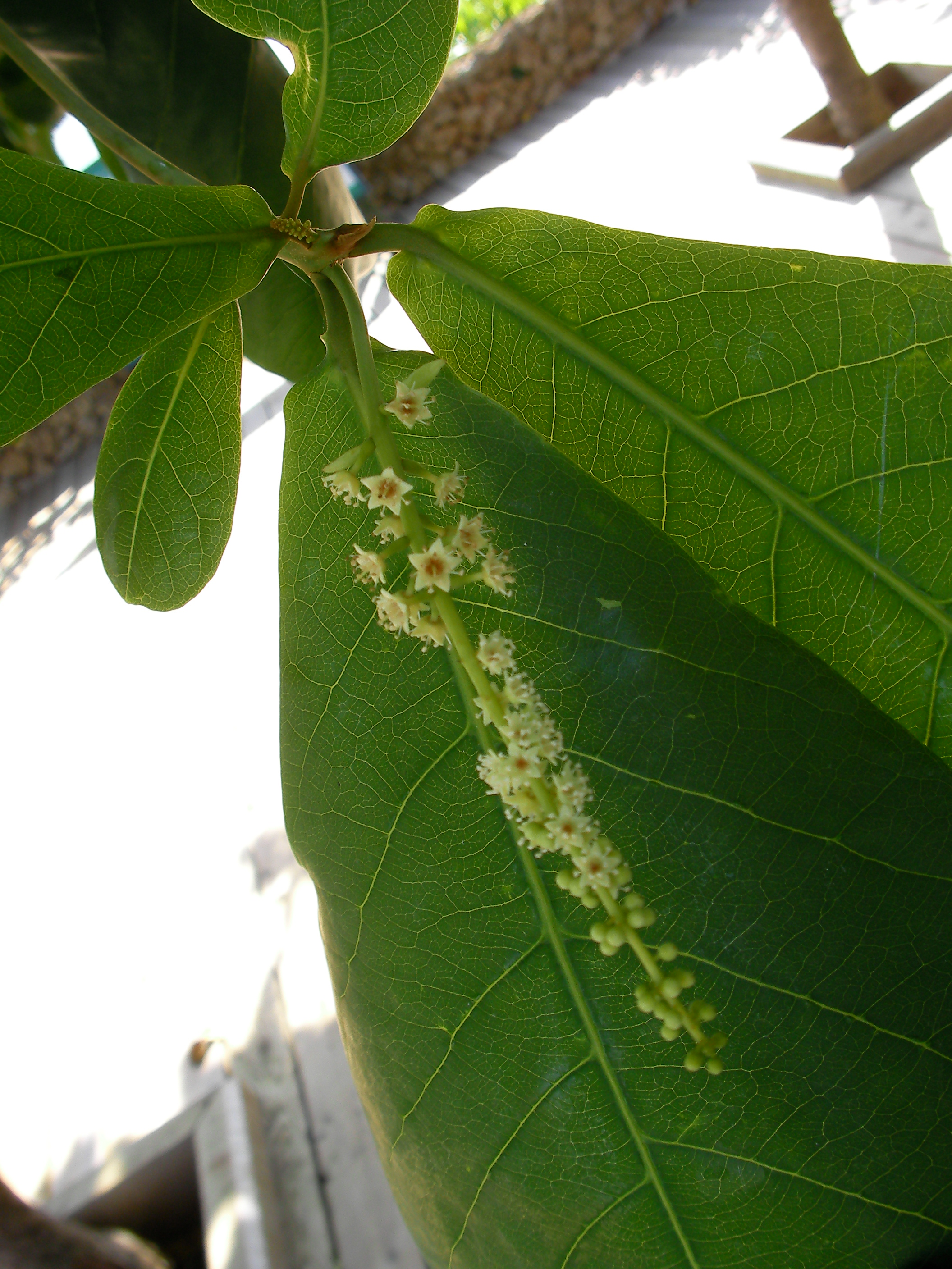 Flowers of Terminalia catappa taken at Kenting, Taiwan